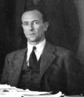 James Chadwick at the 1933 Solvay Conference, 25 October 1933. Chadwick had discovered the neutron the year before.